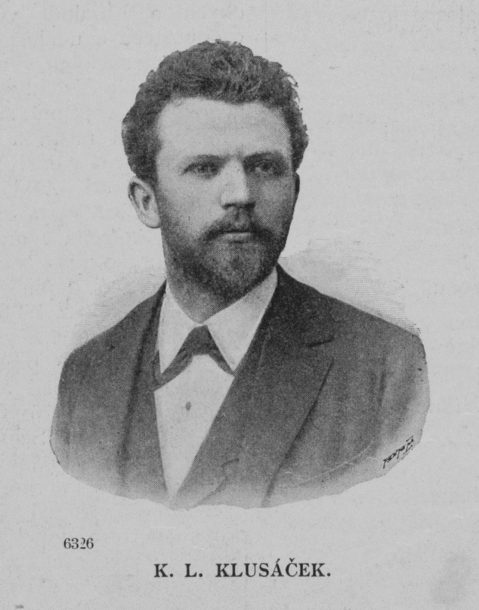 Portrait of Karel Ludvík (Ladislav) Klusáček (1865-1929), Czech painter.